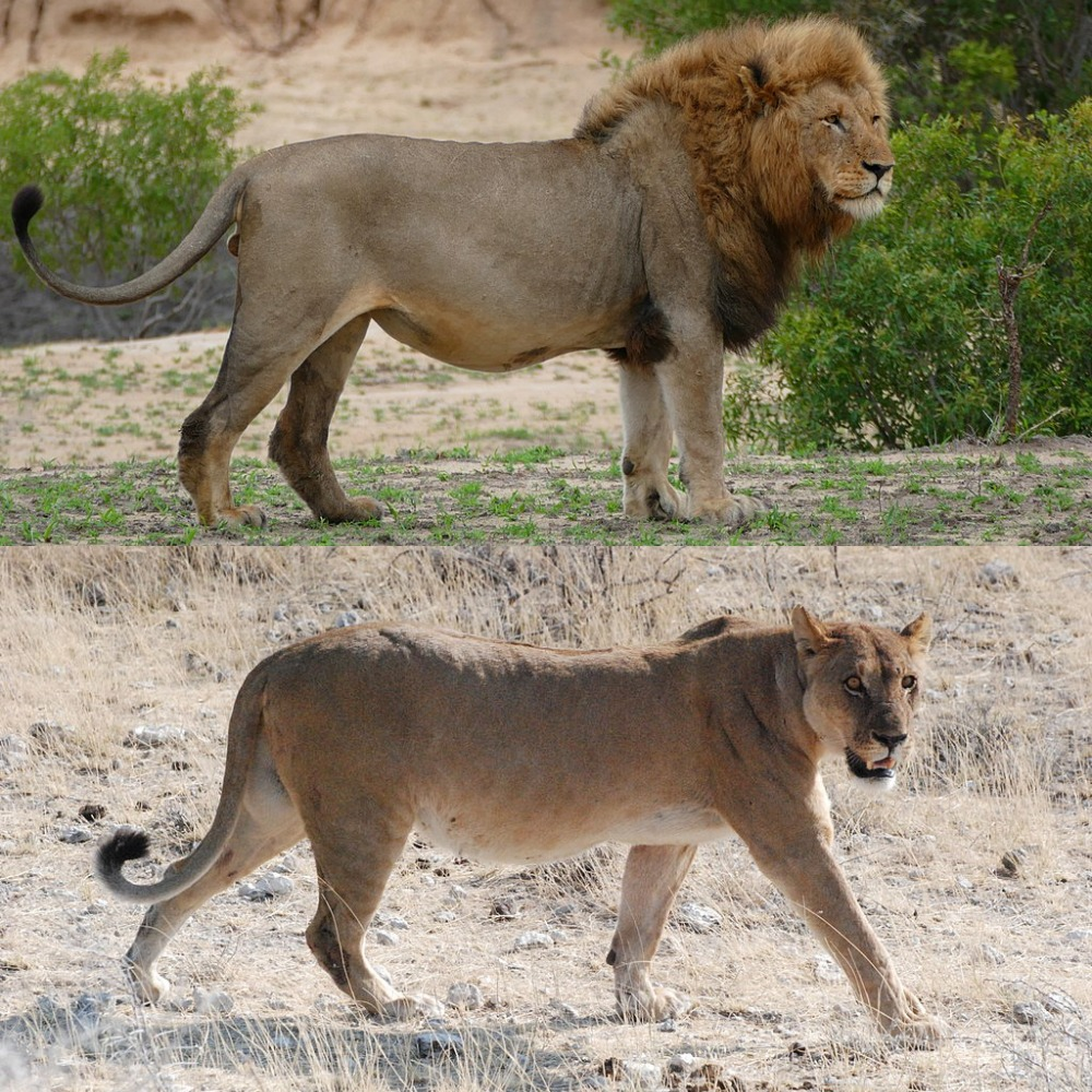 Montage of File:Lion (Panthera leo) (30941994012).jpg, Bernard DUPONT File:Lioness Etosha NP.jpg, Bibitono